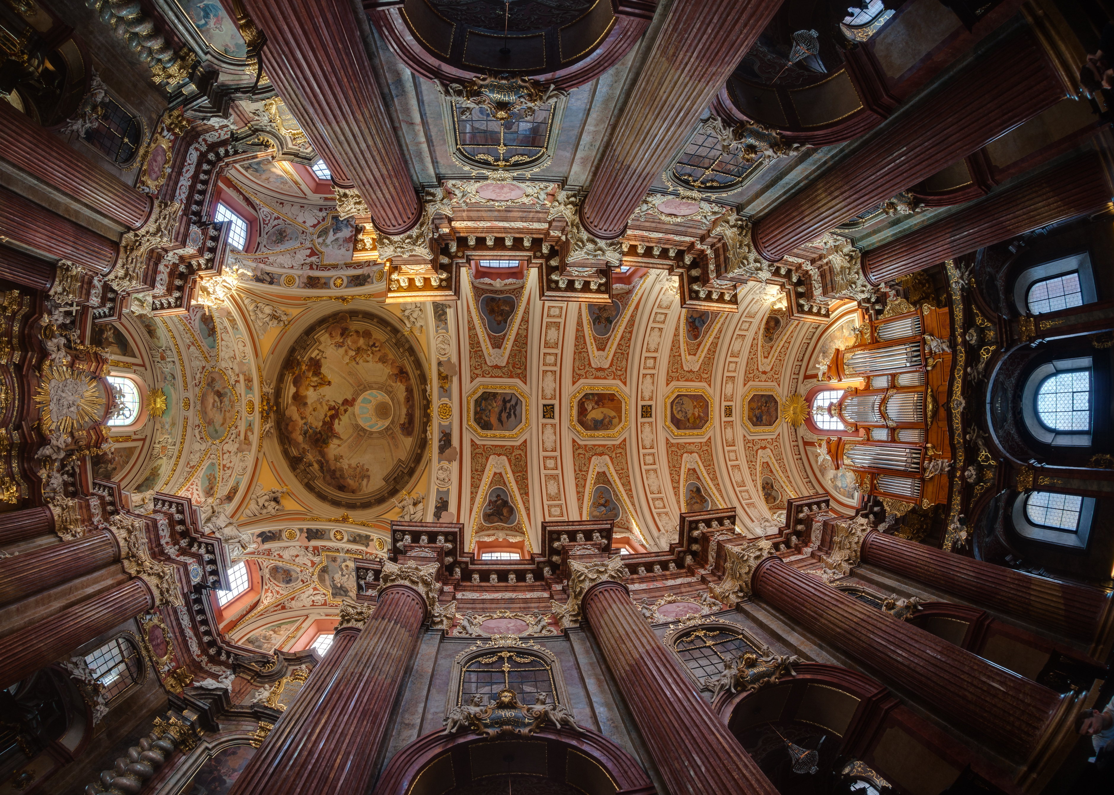 Collegiate church, Poznań, Poland